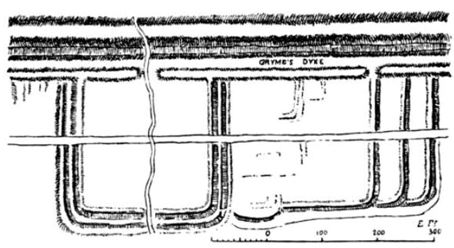 Rough Castle, Antonine Wall, Scotland, drawn by Major-General William Roy in 1755.